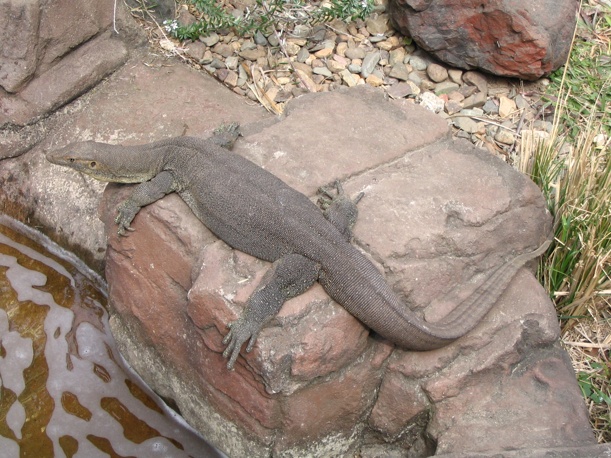 I took this picture myself at the Australia Zoo in August 07.